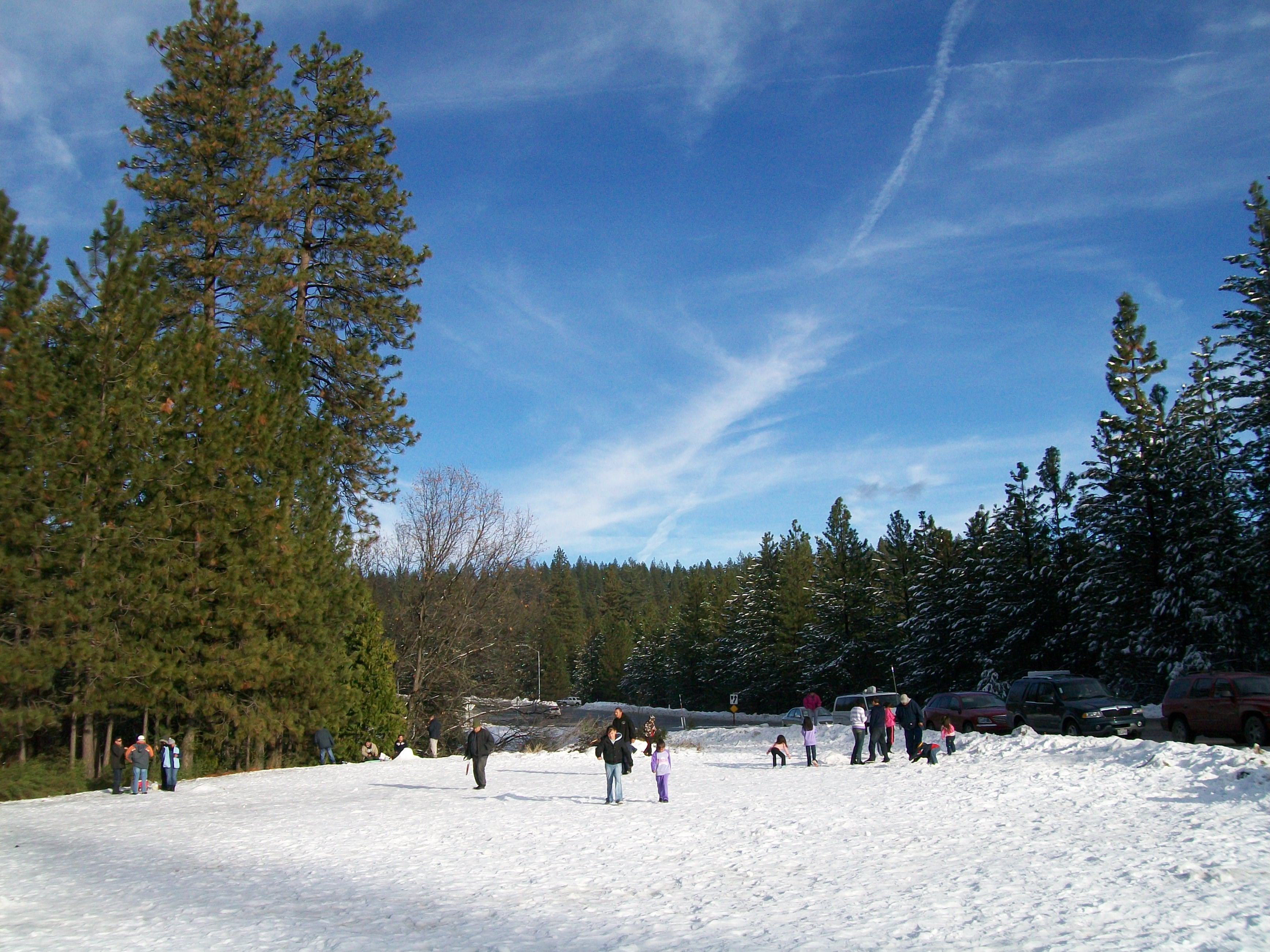 Field in or just outside of Twain Harte, California, in December